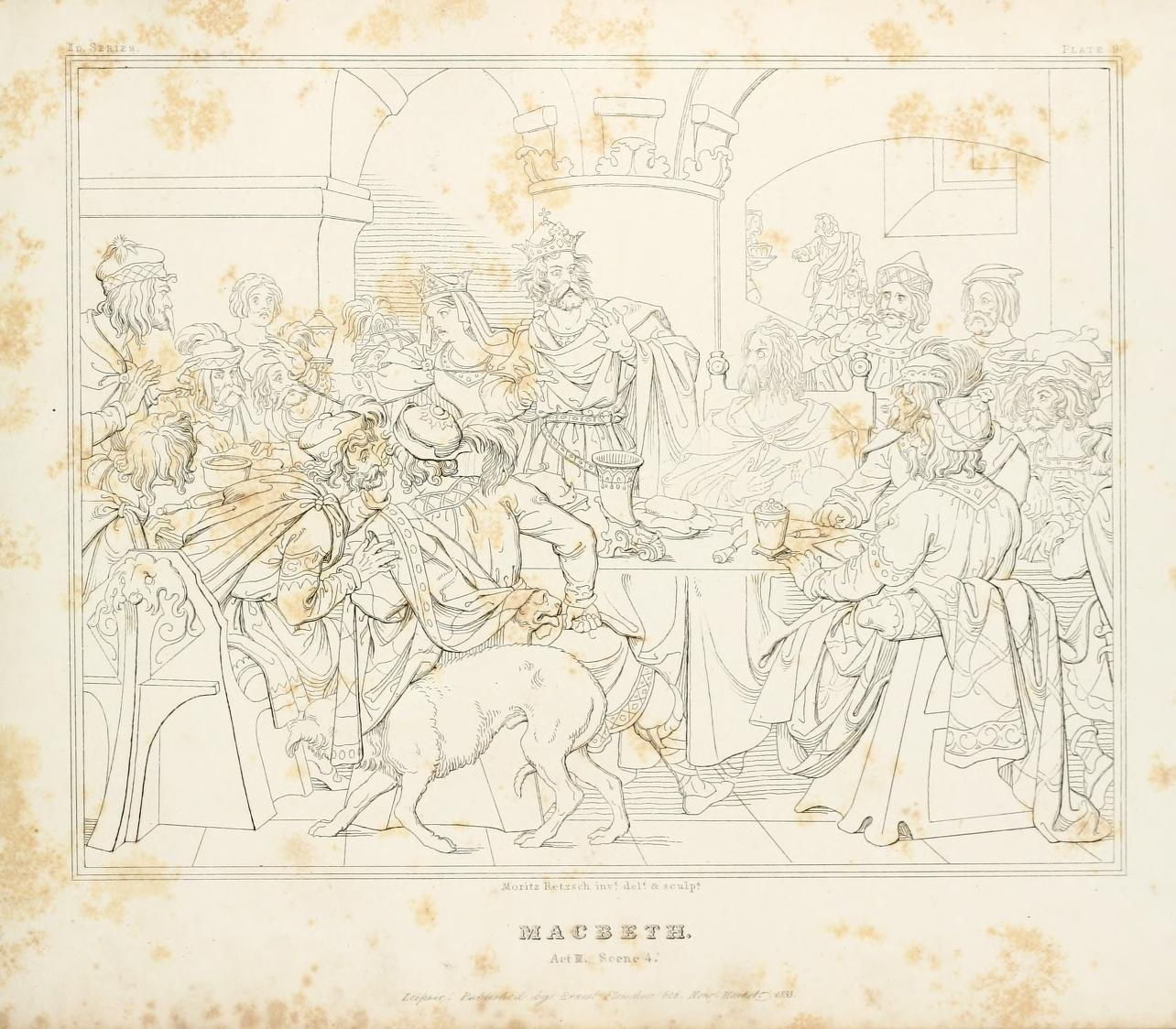 Macbeth_act_II_scene_4 from Moritz Retzsch, Gallery to Shakespeare's dramatic works (New-York, 1853)